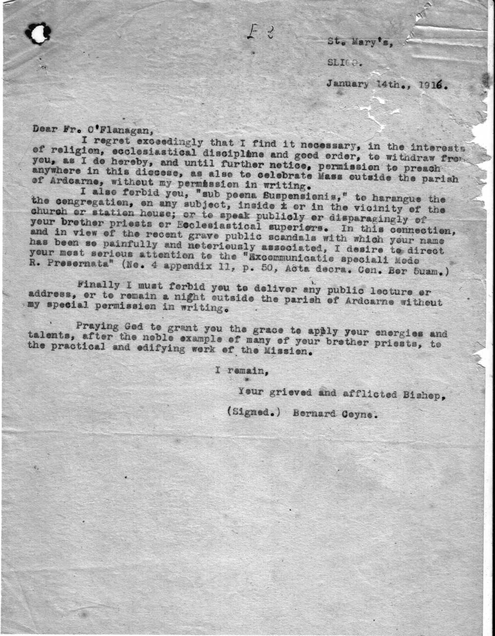 A letter from Bishop Coyne, dated January 14th 1916, forbidding Fr. Michael O'Flanagan to speak at public meetings or to spend a night outside the parish of Ardcarne. O'Flanagan had recently been removed by the Bishop for making controversial speeches. St. Mary’s, Sligo. 14 January 1916. Dear Father O'Flanagan, I regret exceedingly that I find it necessary - in the interests of religion, ecclesiastical discipline and good order - to withdraw from you as I do hereby and until further notice, permission to preach anywhere in this diocese: - as also to celebrate mass outside the parish of Ardcarne without my permission in writing. I also forbid you “sub poena suspensiouis” - to harangue the congregation, on any subject, inside or in the vicinity of the church or station house; or to speak publicly and disparagingly of your brother priests or ecclesiastical superiors. In this connection and in view of the recent grave public scandals with which your name has been so painfully and notoriously associated, I desire to direct your most serious attention to the Eccommunicto speciali modo R. P. reservata (No. 4. Appendix II. P. 50 aeta et deciu Con. Prov. Tuam.) Finally I must forbid you to deliver any public lecture or address, or to remain a night outside the parish of Ardcarne without my special permission in writing. Praying to God to grant you the grace to apply your energies and talents - after the noble example of so many of your brother priests - to the practical and edifying work of the mission. I remain your grieved and afflicted Bishop, Signed Bernard Coyne